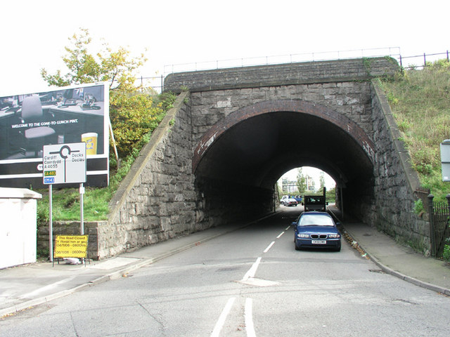 Weston Square Bridge, Barry This long railway bridge, locally known as "The Tunnel" previously carried the many railway lines delivering coal to Barry Dock for export.